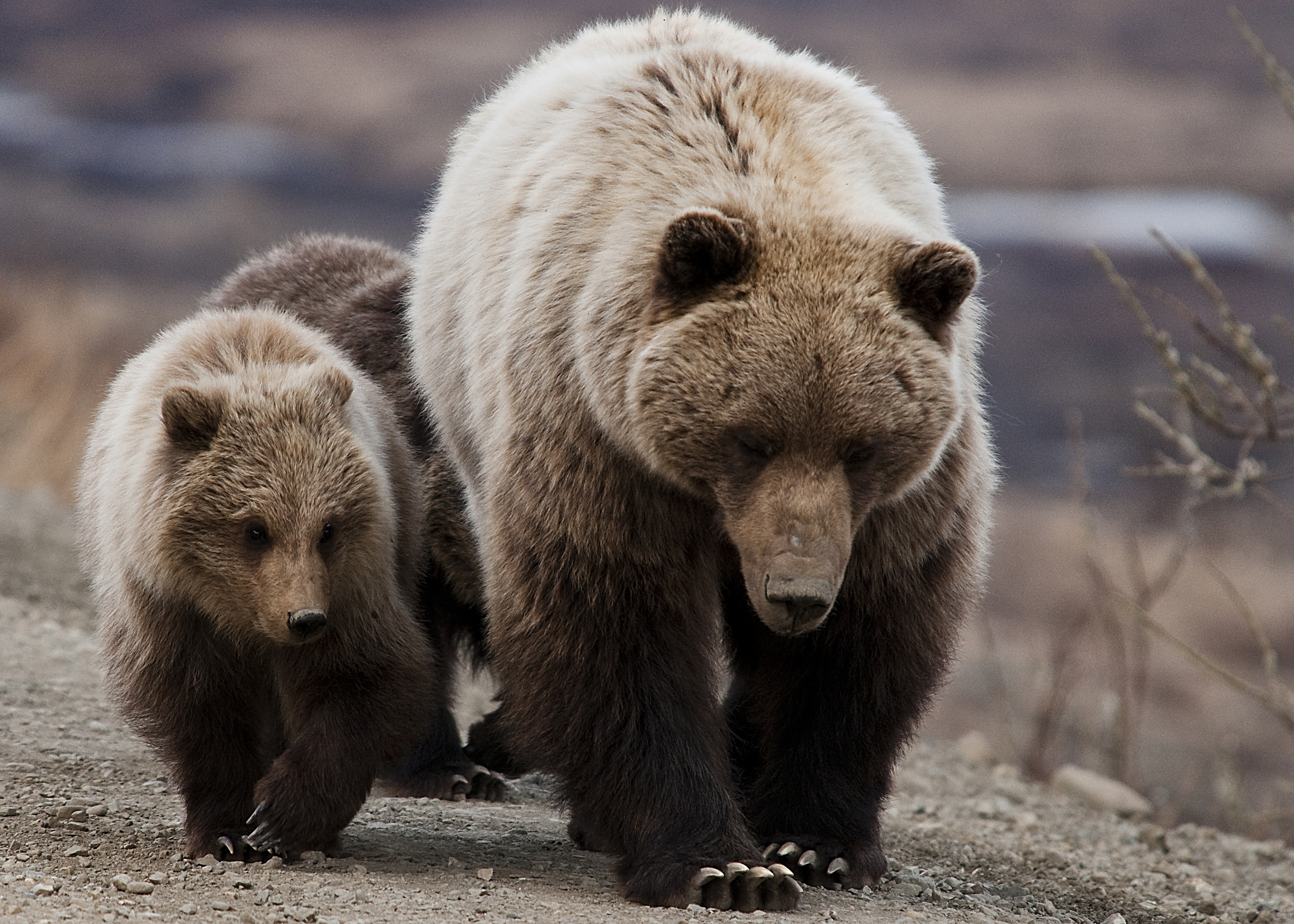 (NPS Photo/ Tim Rains) Check out the official Denali Facebook, Twitter and YouTube pages: Like us on Facebook: Follow us on Twitter: Denali YouTube Channel